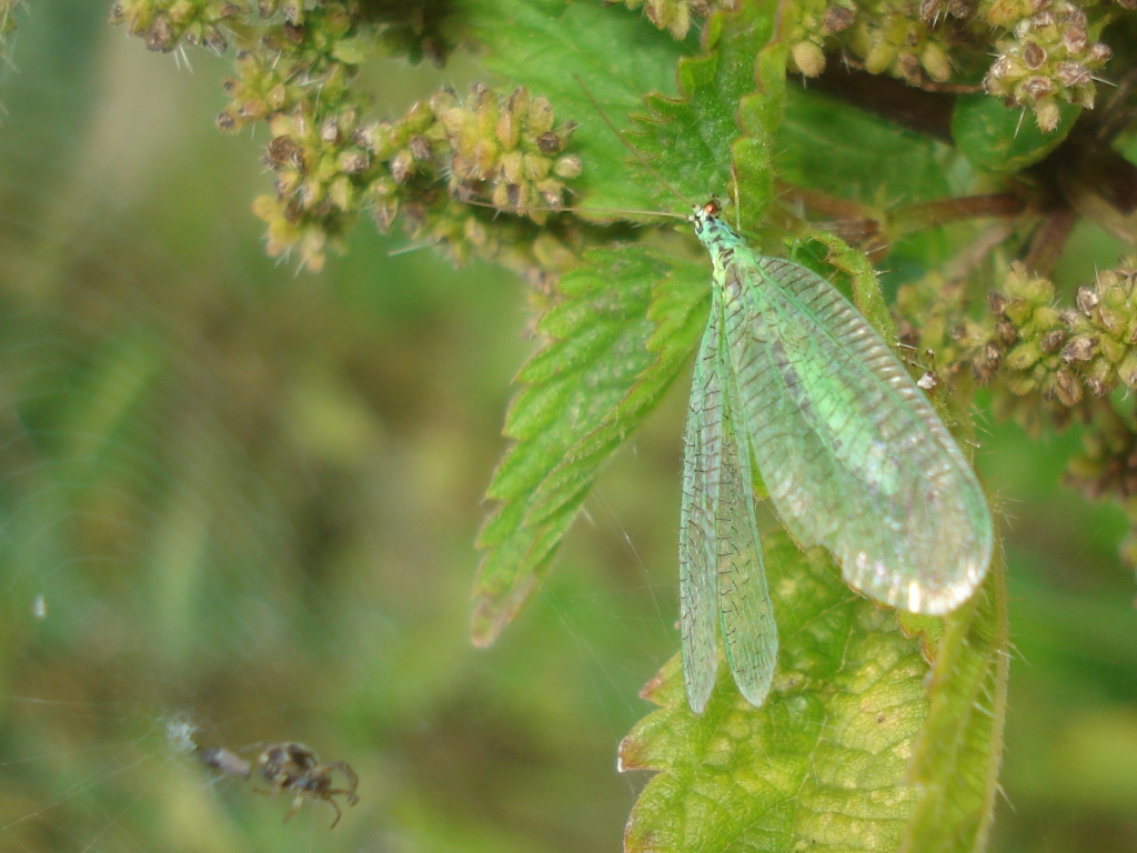 Goldauge (Chrysopa perla)